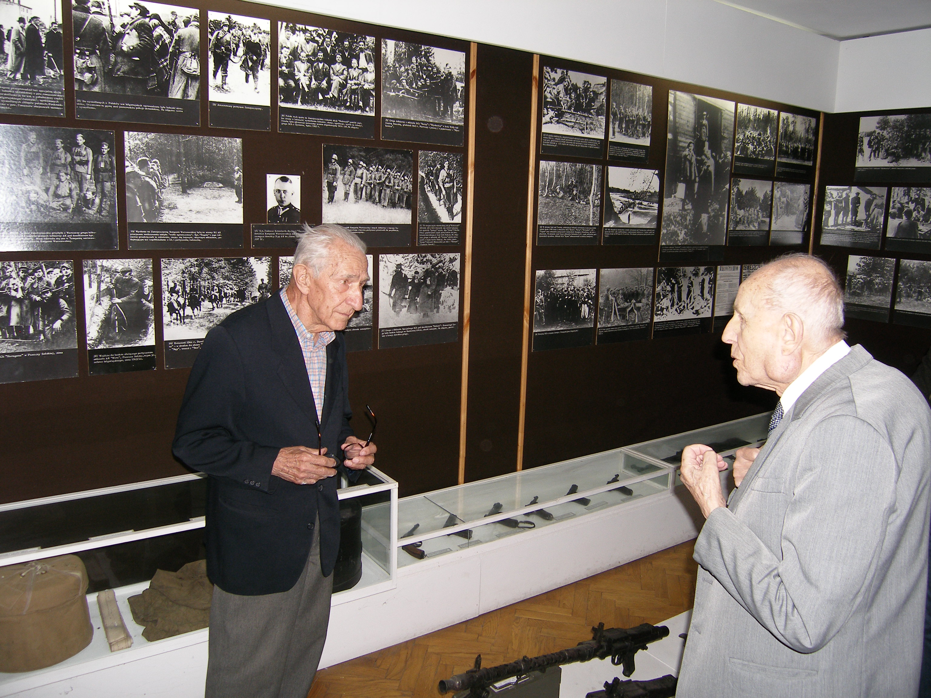 Muzeum Armii Krajowej w Bondyrzu